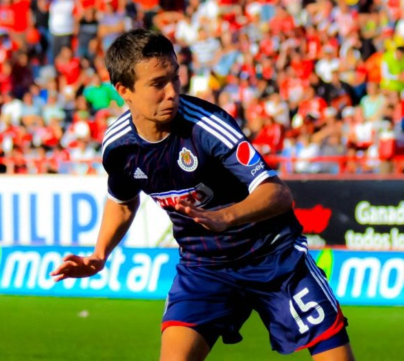 Chivas player Erick Torres